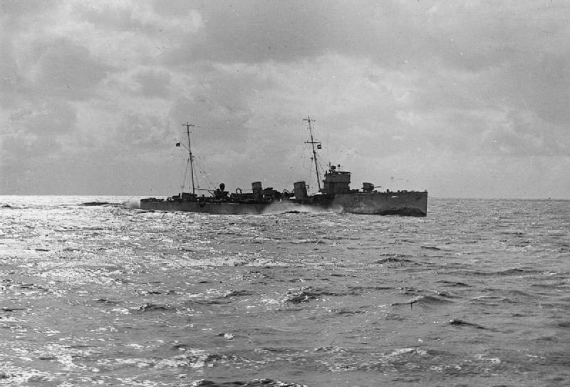 Photograph of British Acheron class destroyer HMS FIREDRAKE.